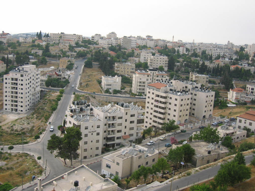 By Ramallite. Apartment buildings in Ramallah residential neighborhood.